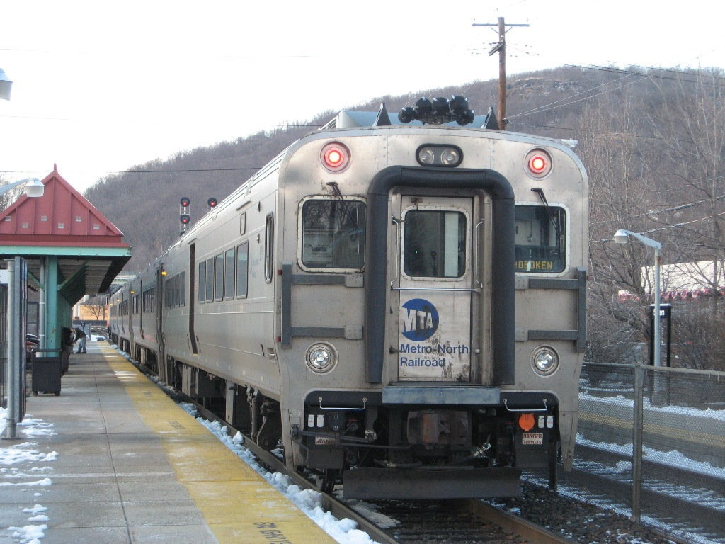 New Jersey Transit train #1728, with MTA Metro-North Railroad #6710 at the head, waits to depart at Suffern.